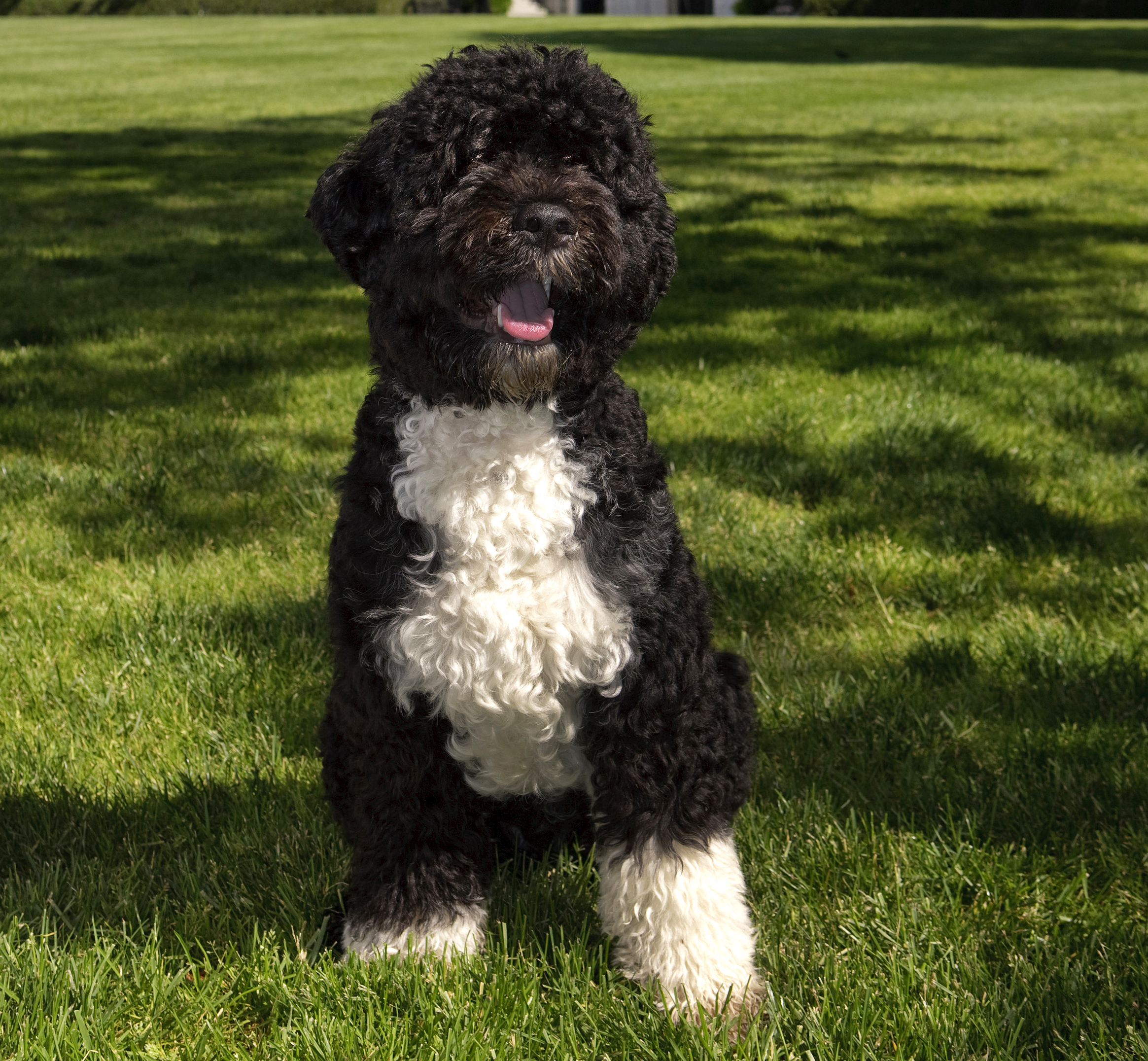 The official portrait of the Obama family dog, "Bo", a Portuguese water dog, on the South Lawn of the White House.